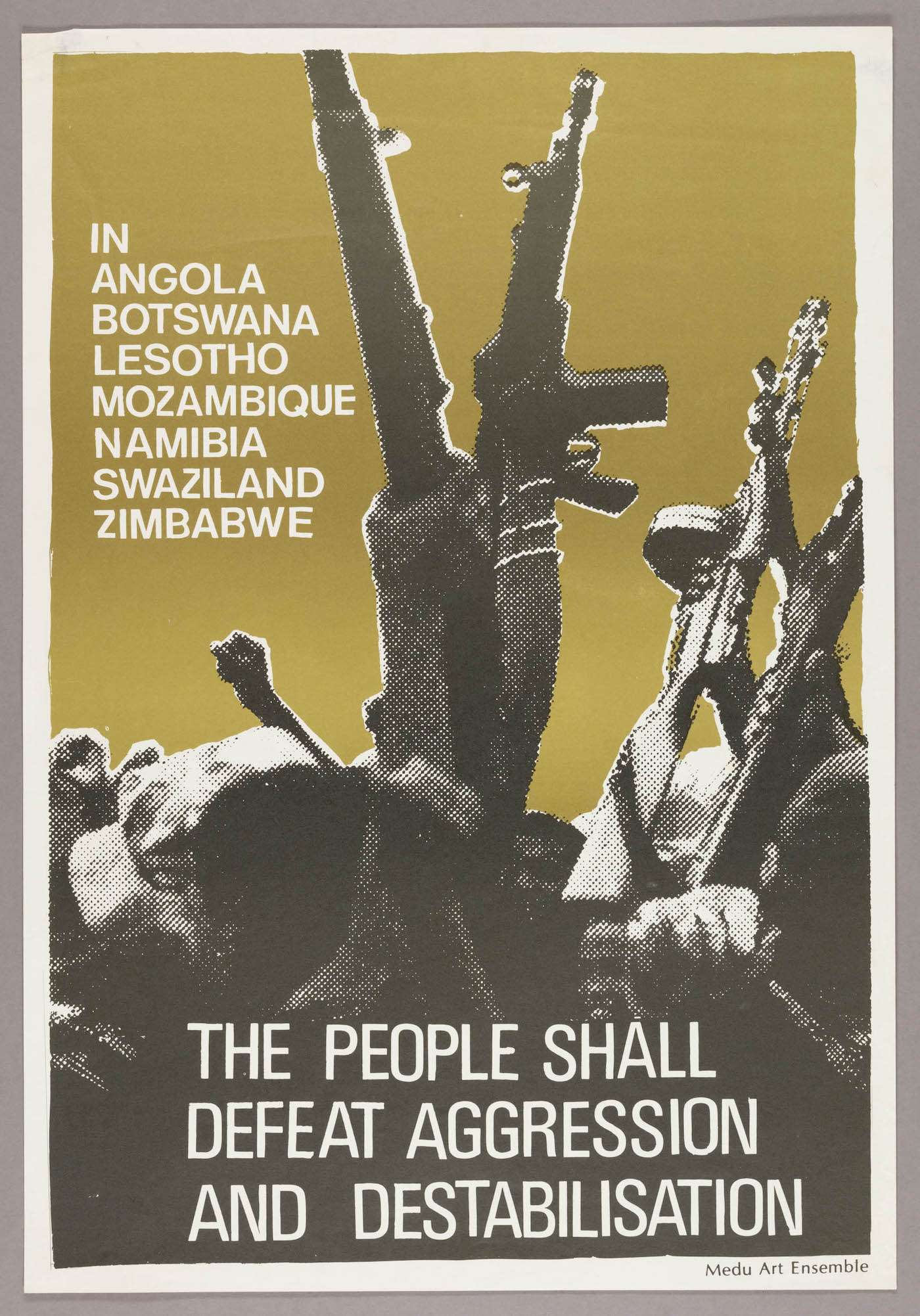 Medu Art Ensemble's The People Shall Defeat Aggression Poster